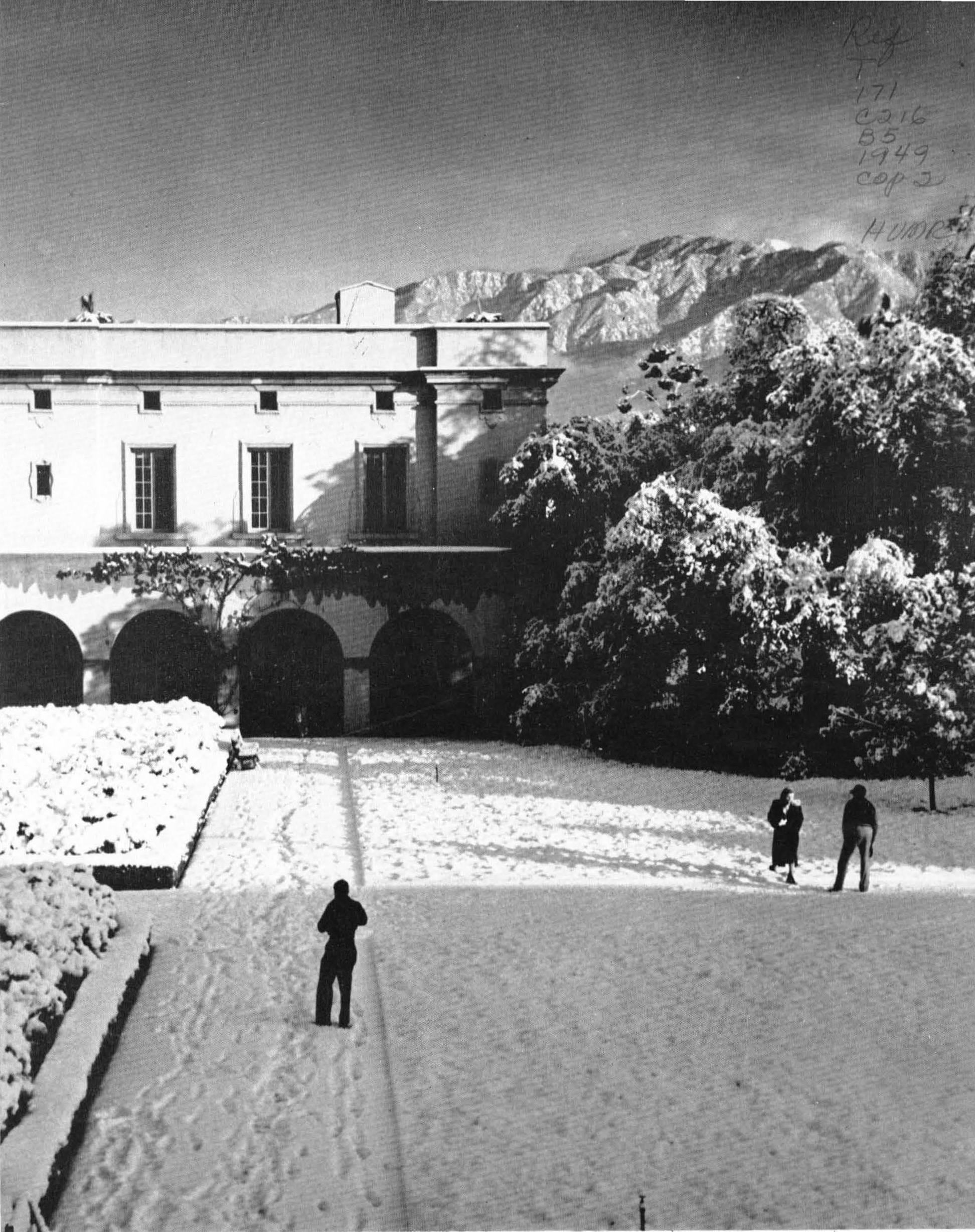 Snow at the California Institute of Technology